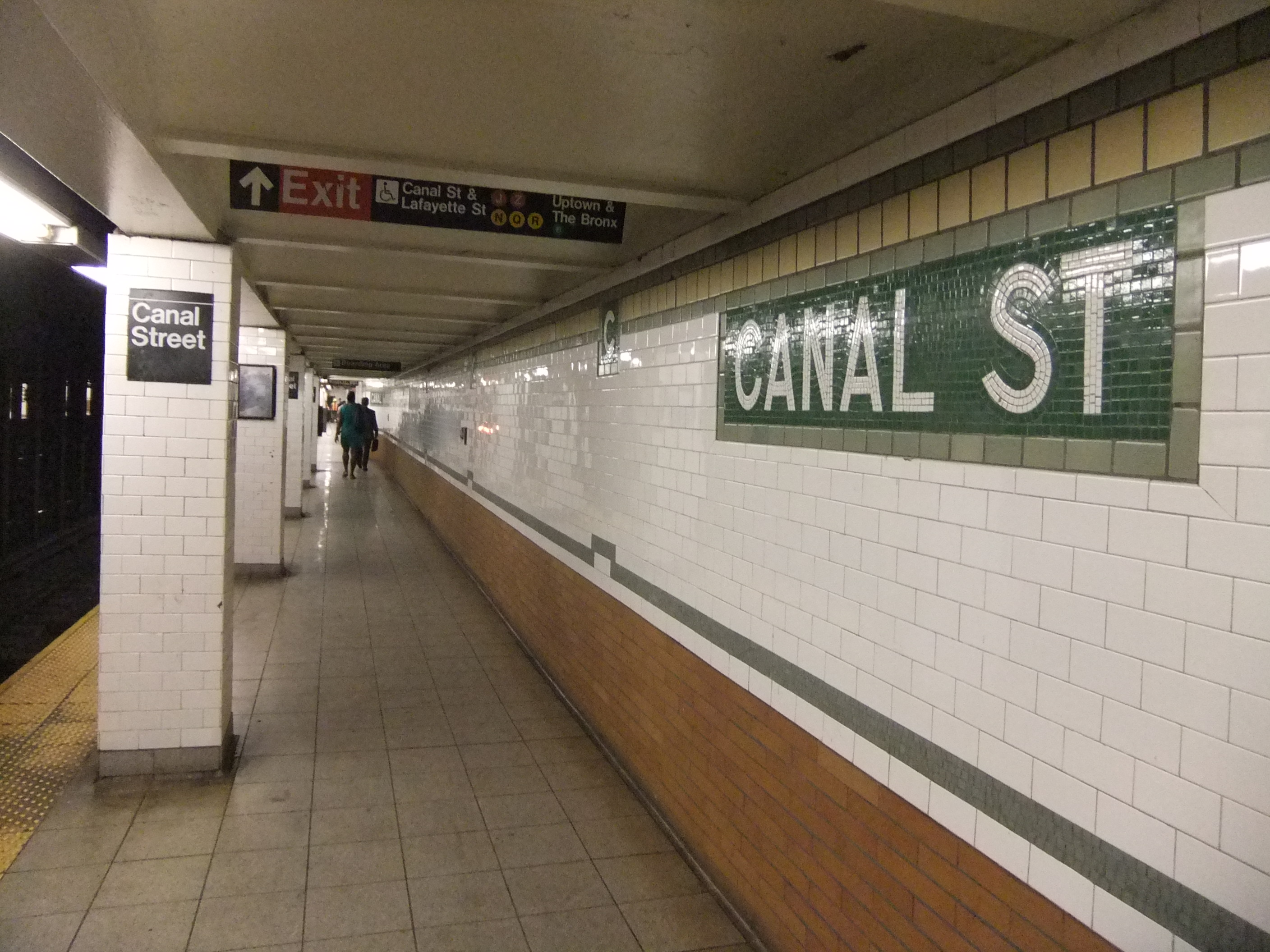 Bklyn Bridge bound 6 platform at Canal Street (Lafayette)